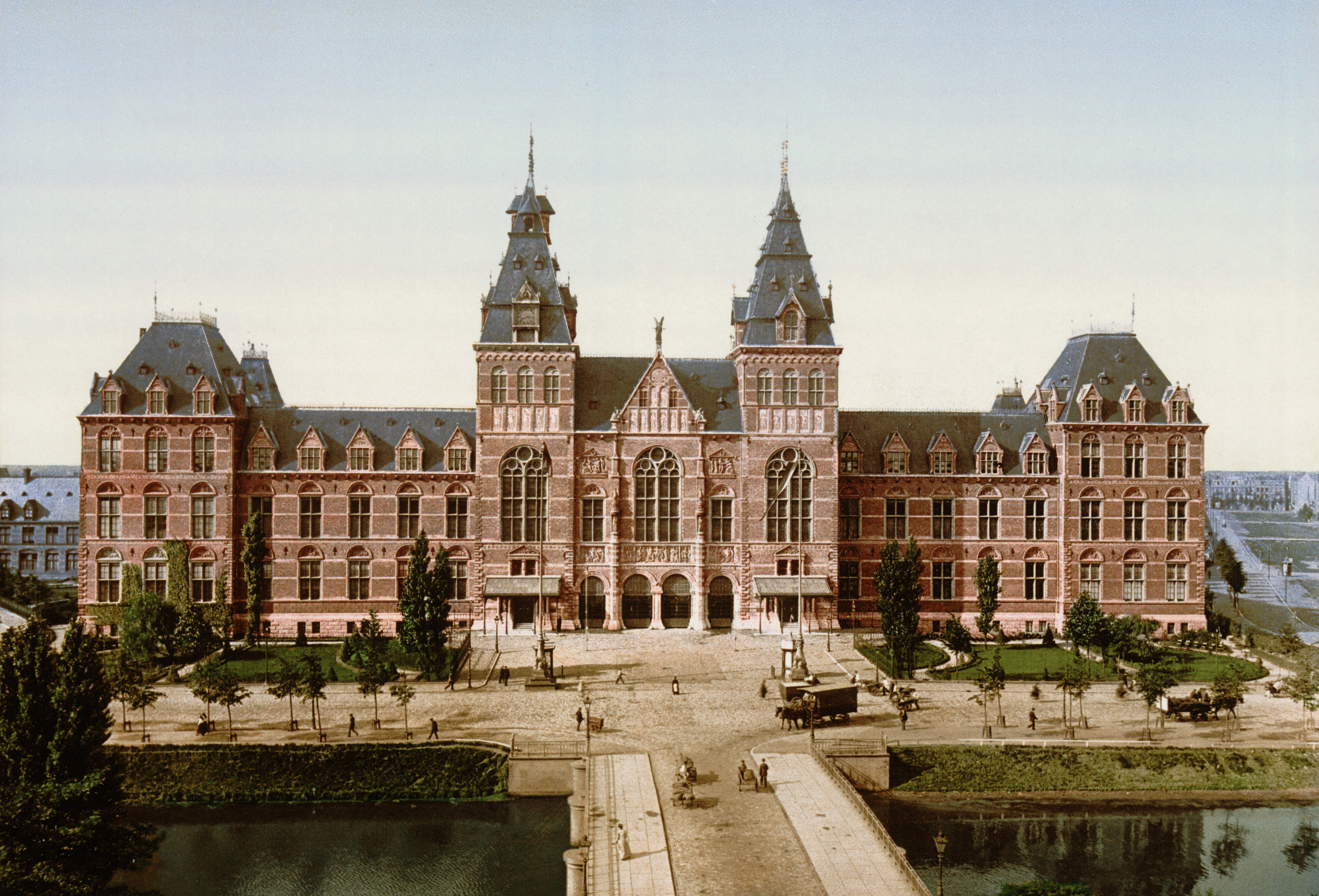 Rijksmuseum Amsterdam ca. 1895 Print no. "6100"